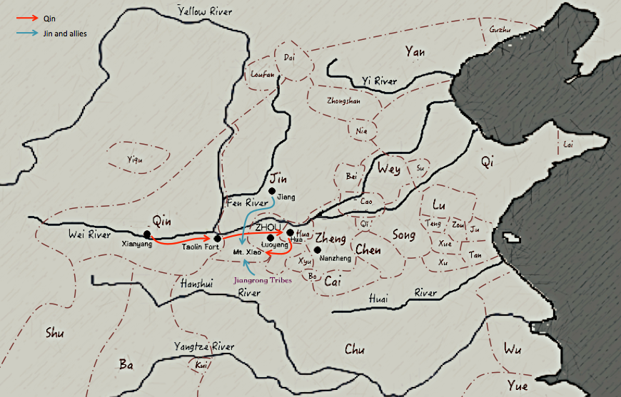 Map showing the Battle of Xiao between Qin and Jin during the Spring and Autumn period.